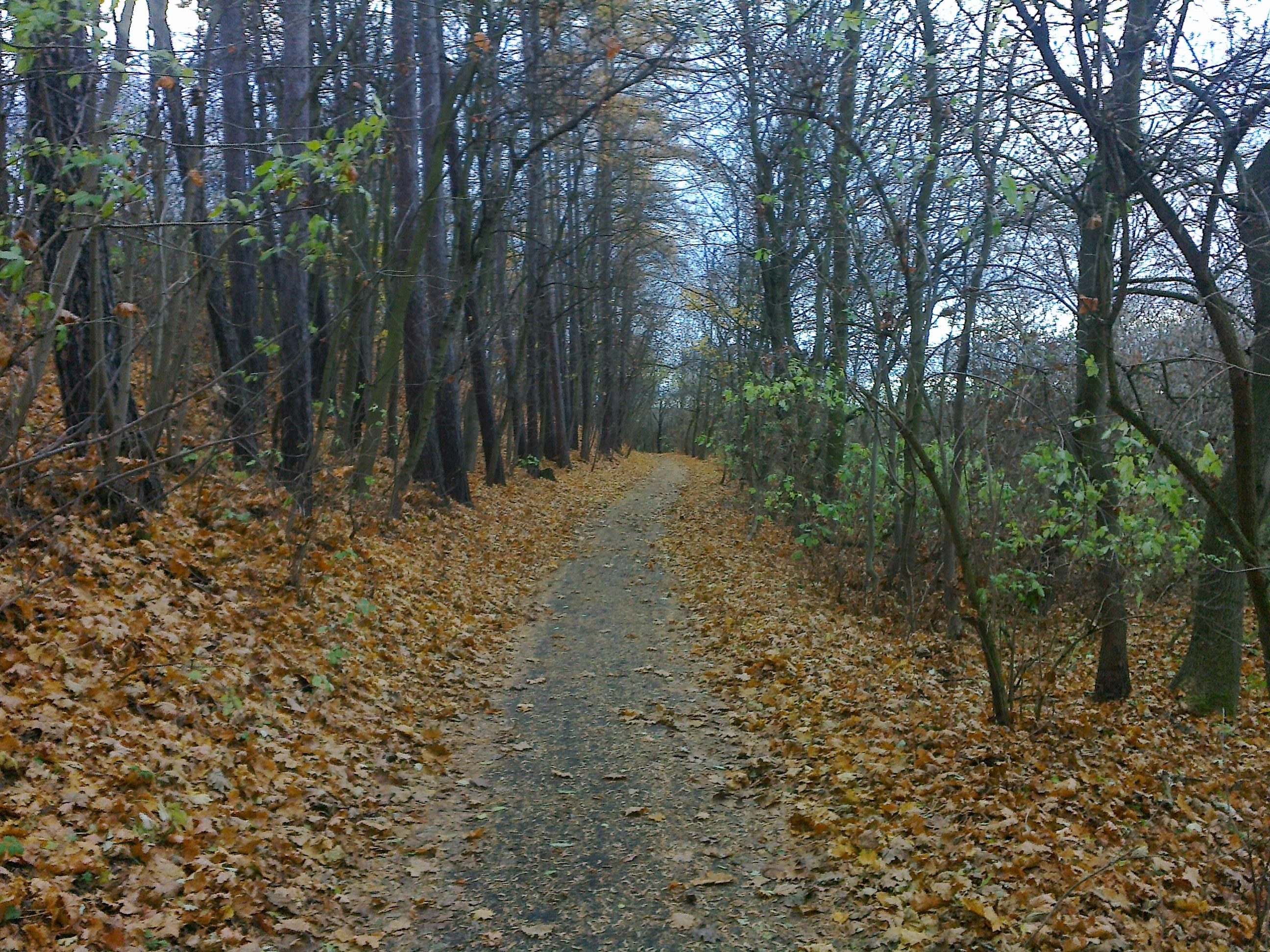 Scenery of the Educational trail Smolnický potok